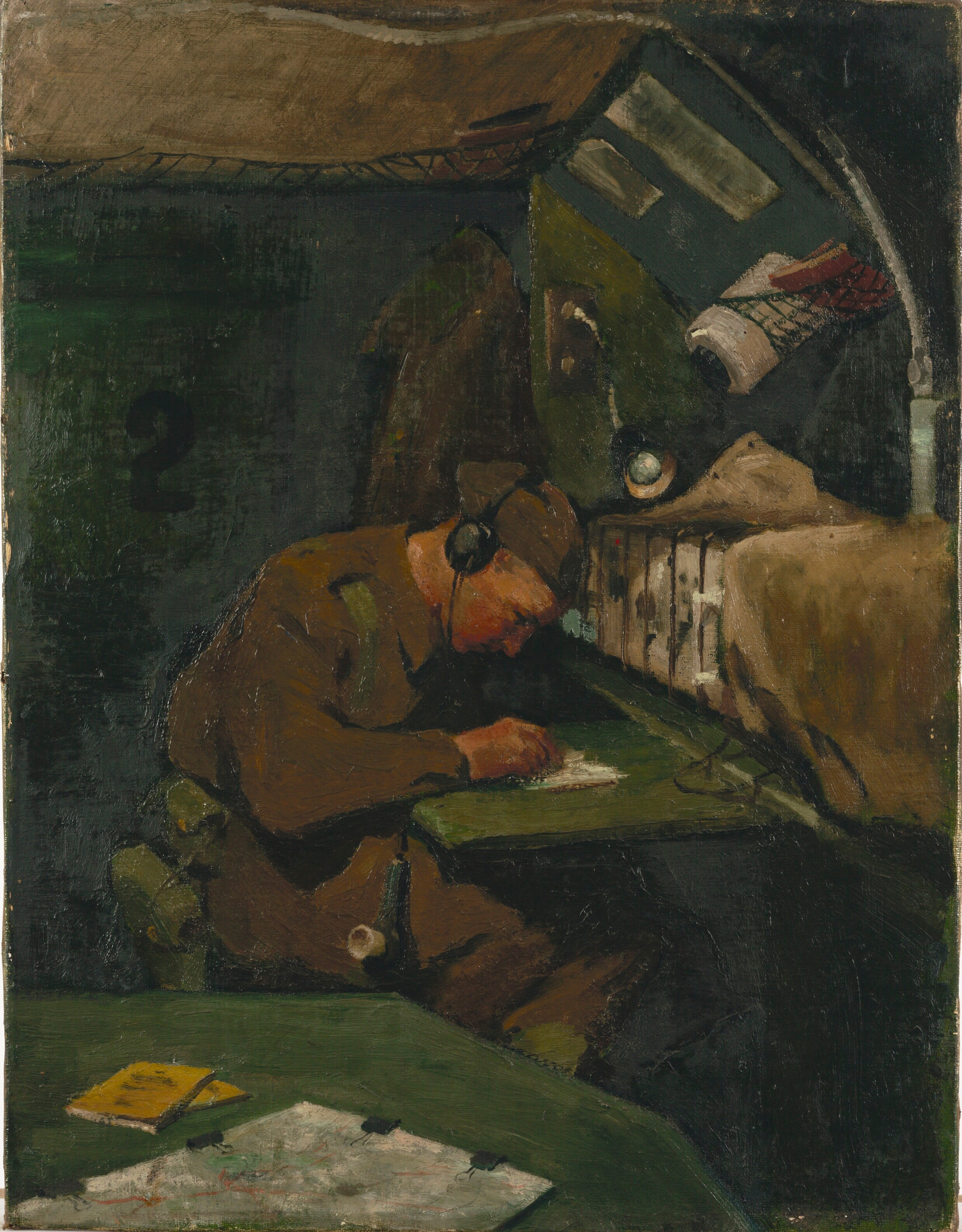 A Wireless-operator in an Armoured Command Vehicle image: a British Army wireless operator sitting at his desk in front of the radio, noting a message.